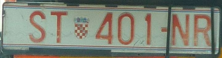 Croatian license plate for abnormal vehicles, ST = Split